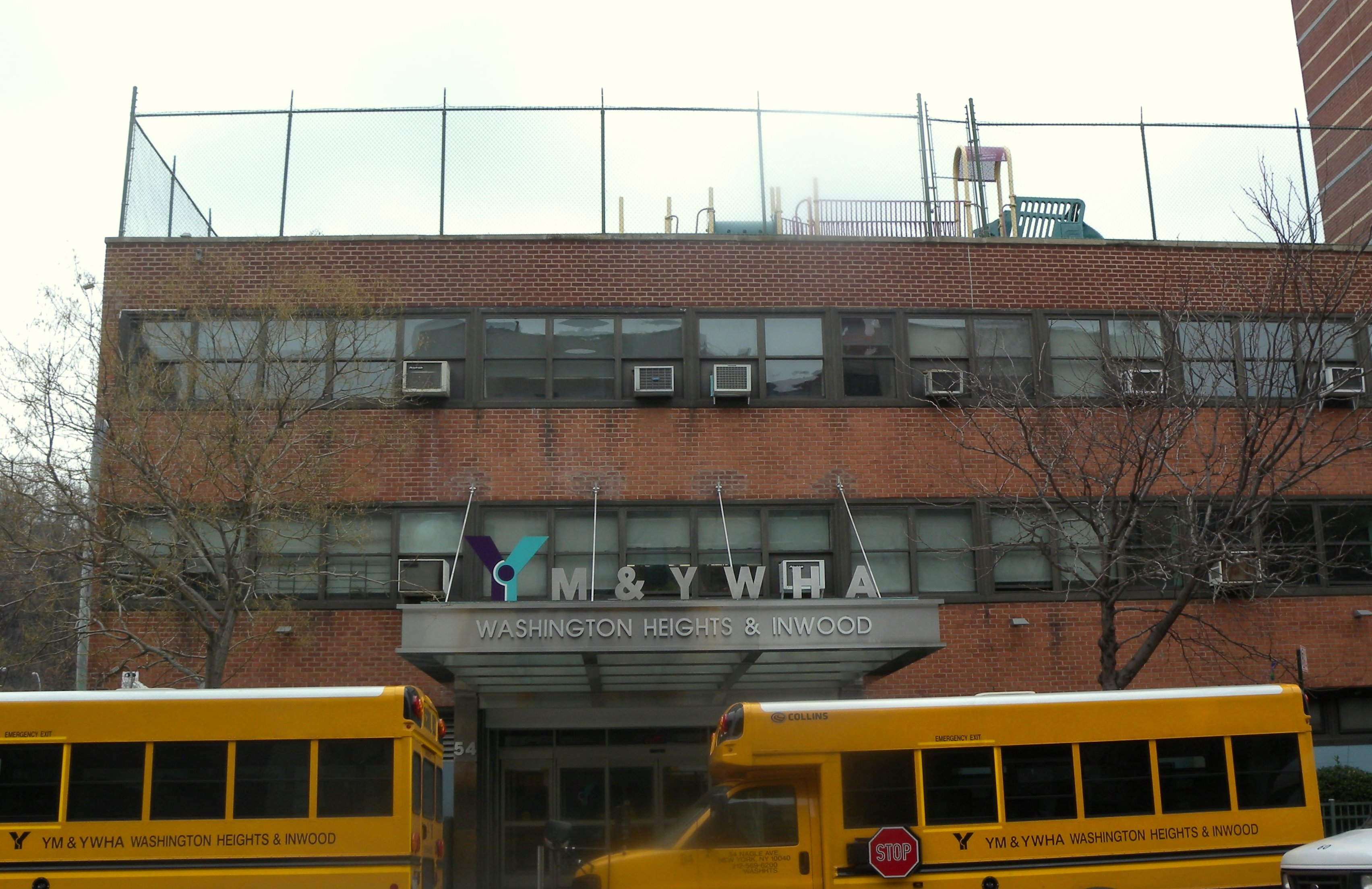 Looking northwest at Washington heights-Inwood YMHA on a cloudy midday. ZIP 10040.